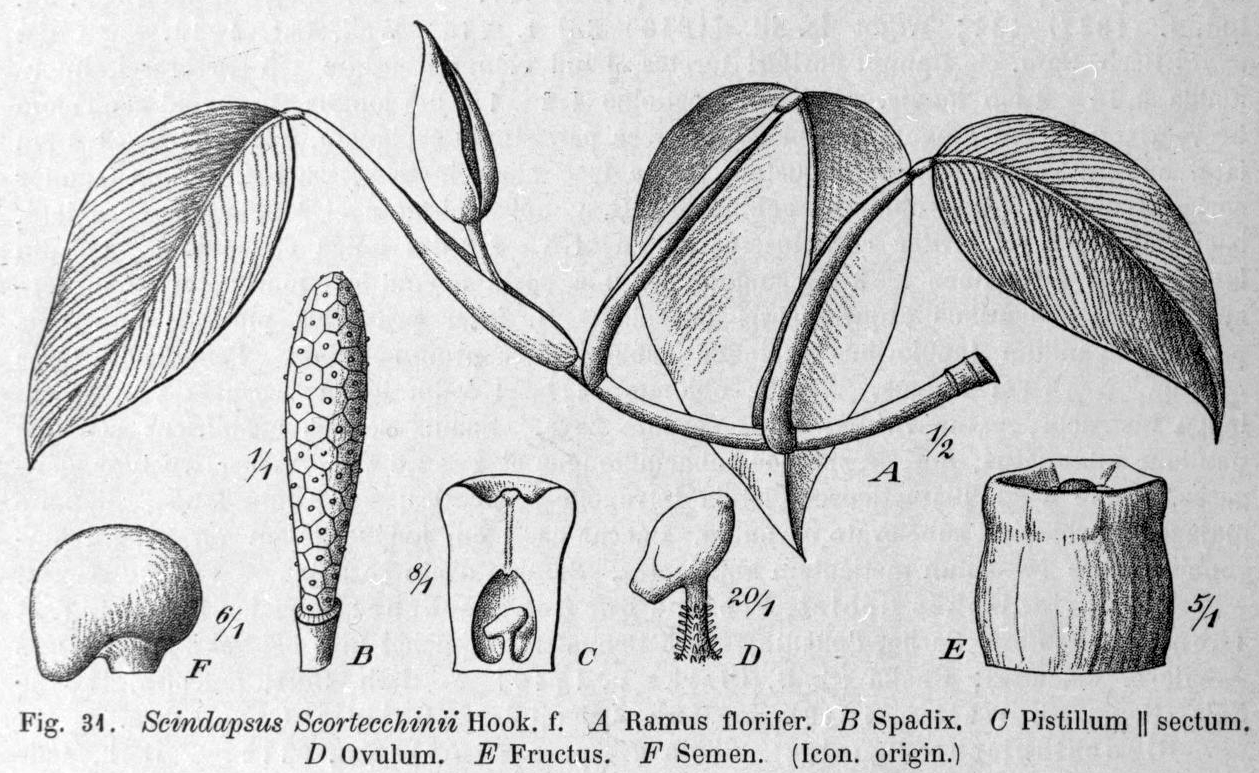 Scindapsus scortechinii